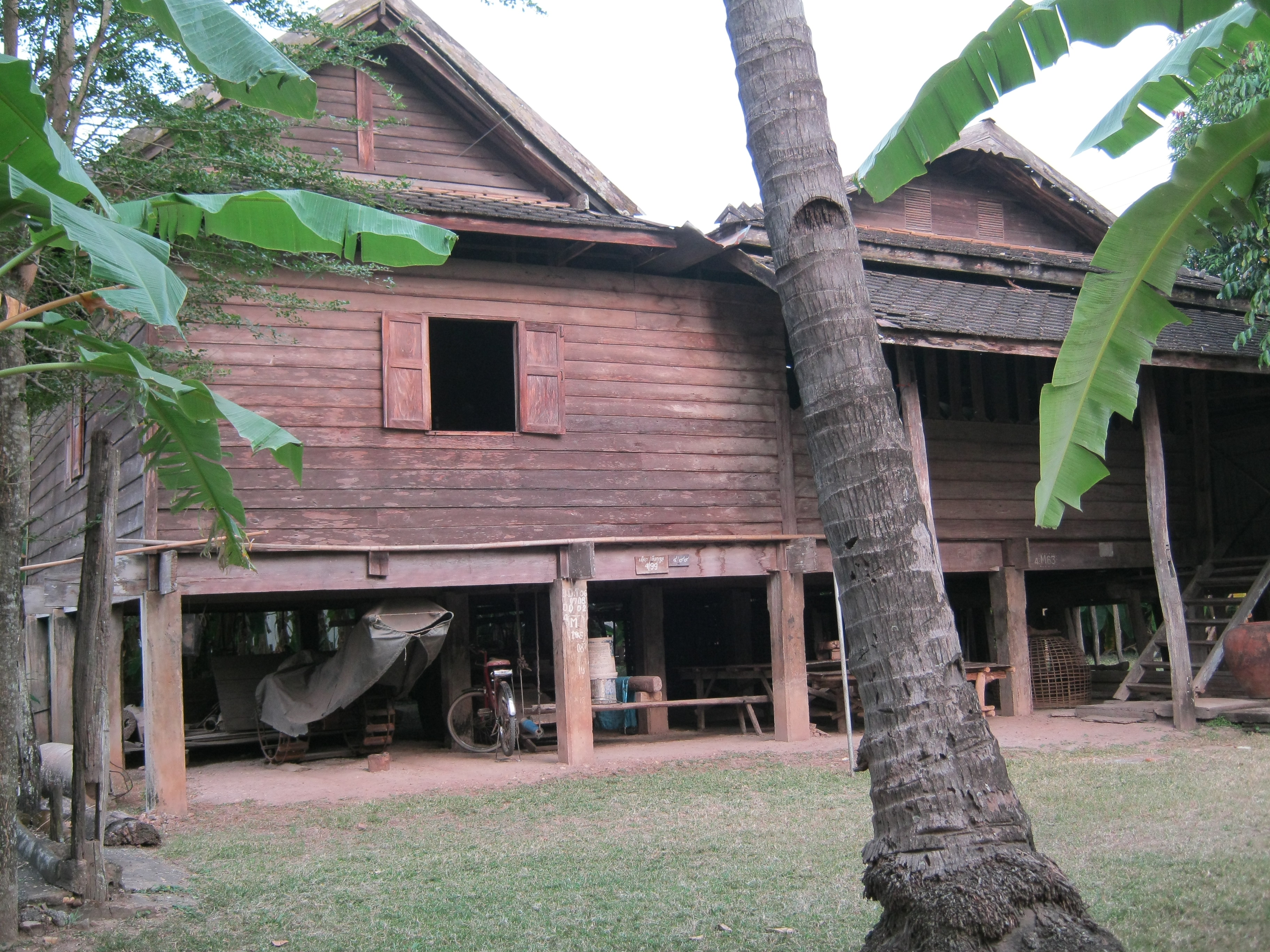 Ban Ngew-Ngam